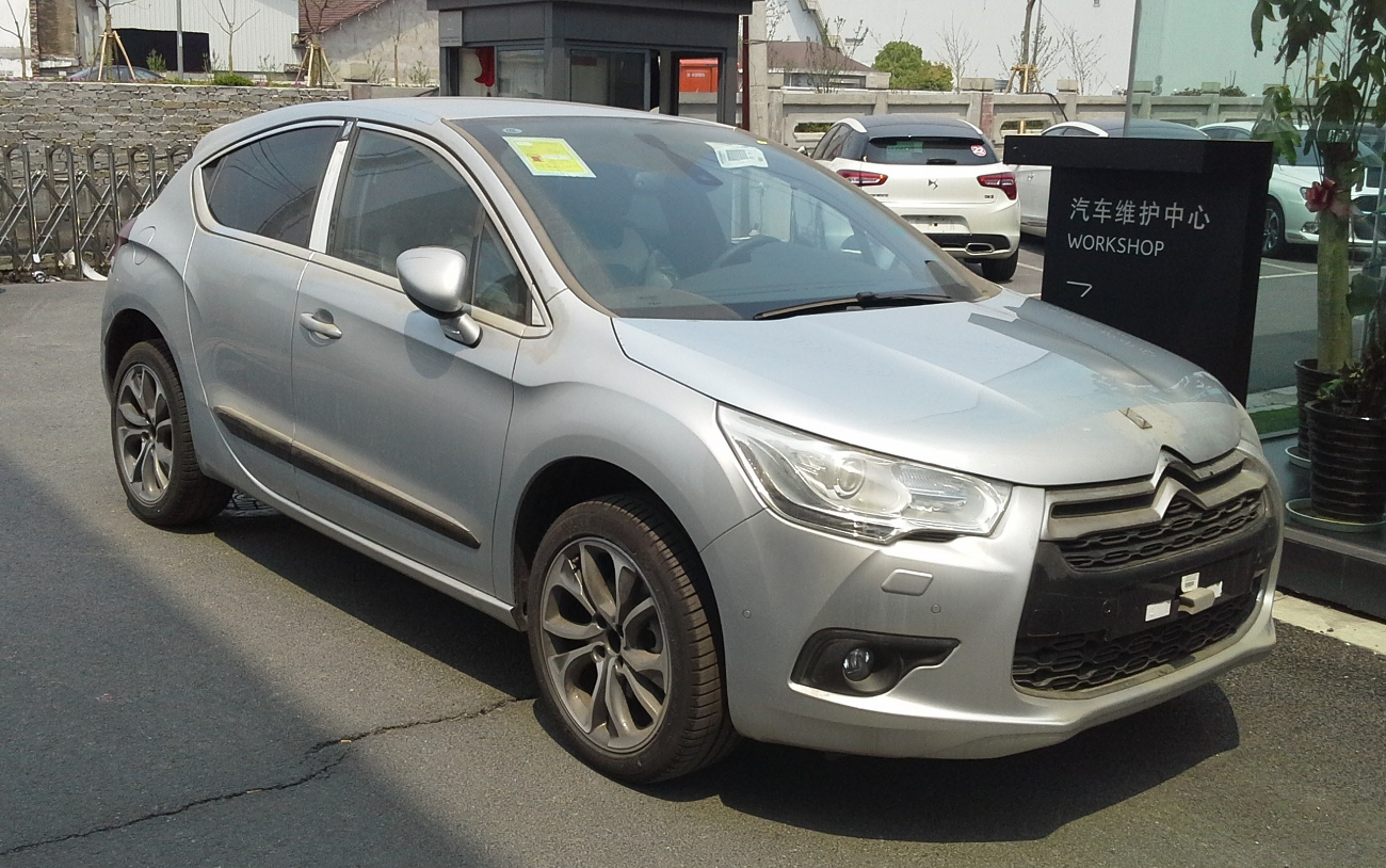 Citroën DS4 photographed in Shanghai, China.